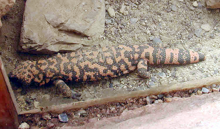 Gila monster Heloderma suspectum